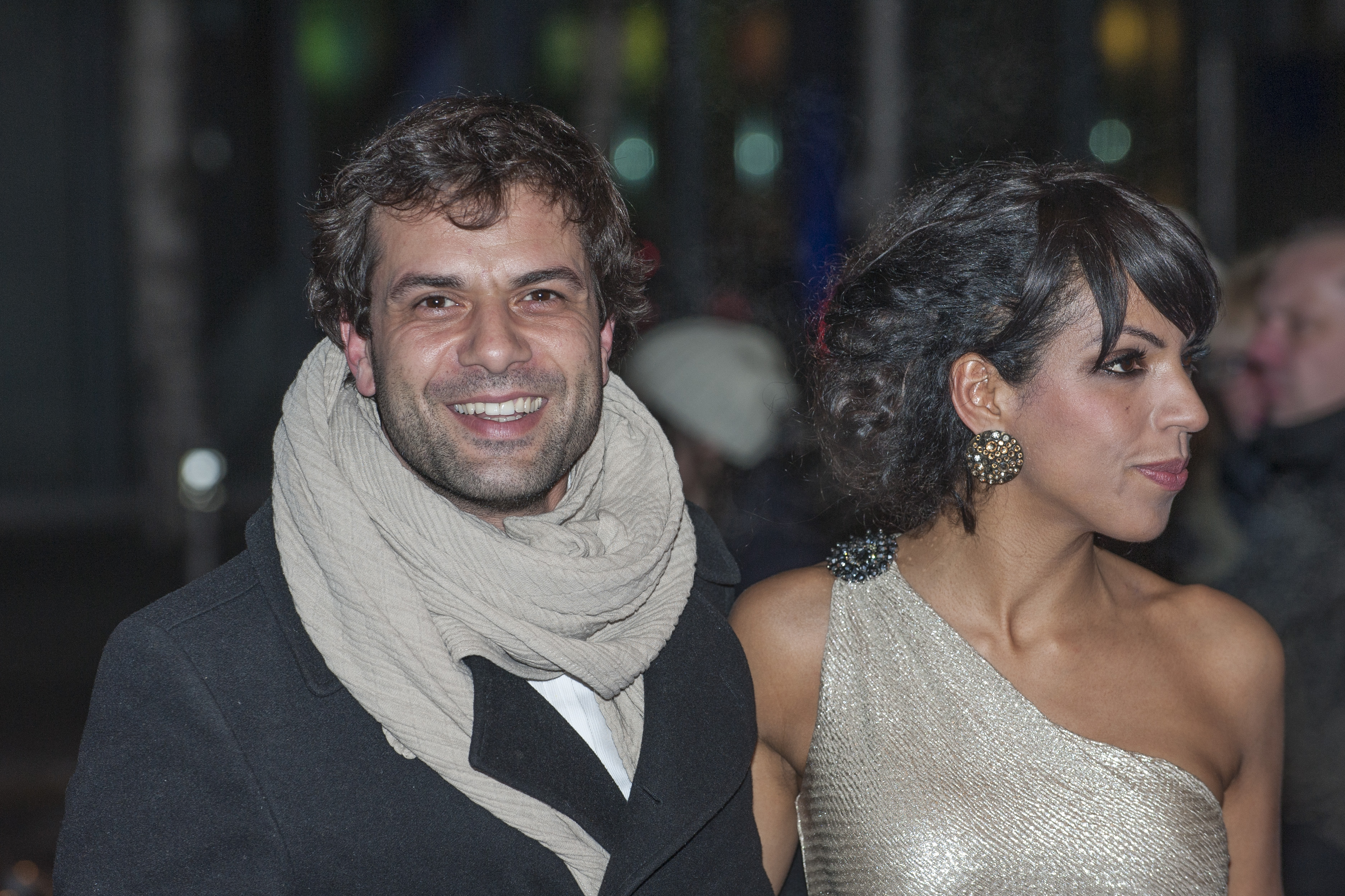 Actor Kai Schumann and partner Medienboard reception at the Ritz Carlton Hotel Berlin